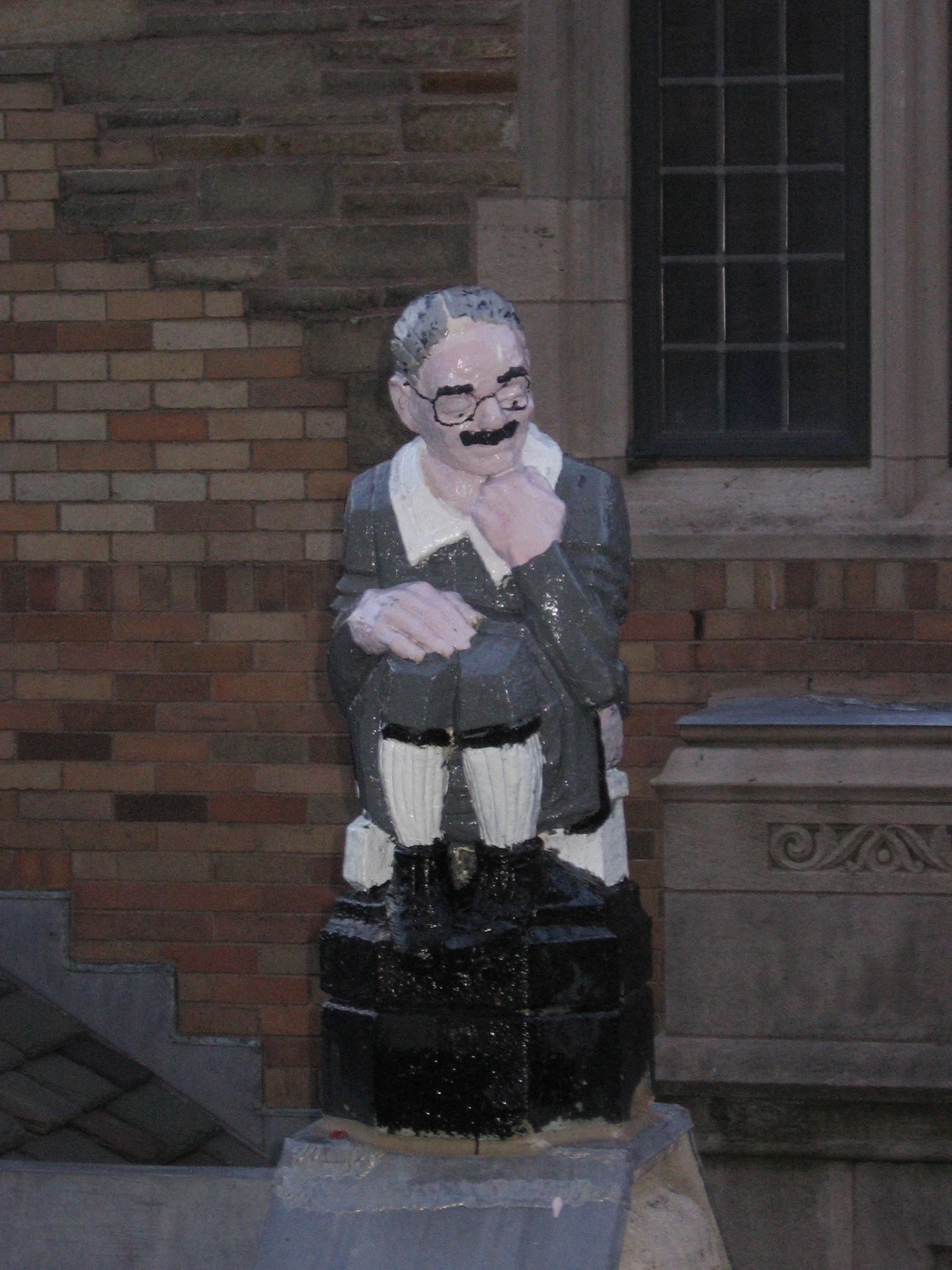 The Trumbull College Potty Court gargoyle, painted as Yale College Dean Peter Salovey by the Trumbull College Class of 2008